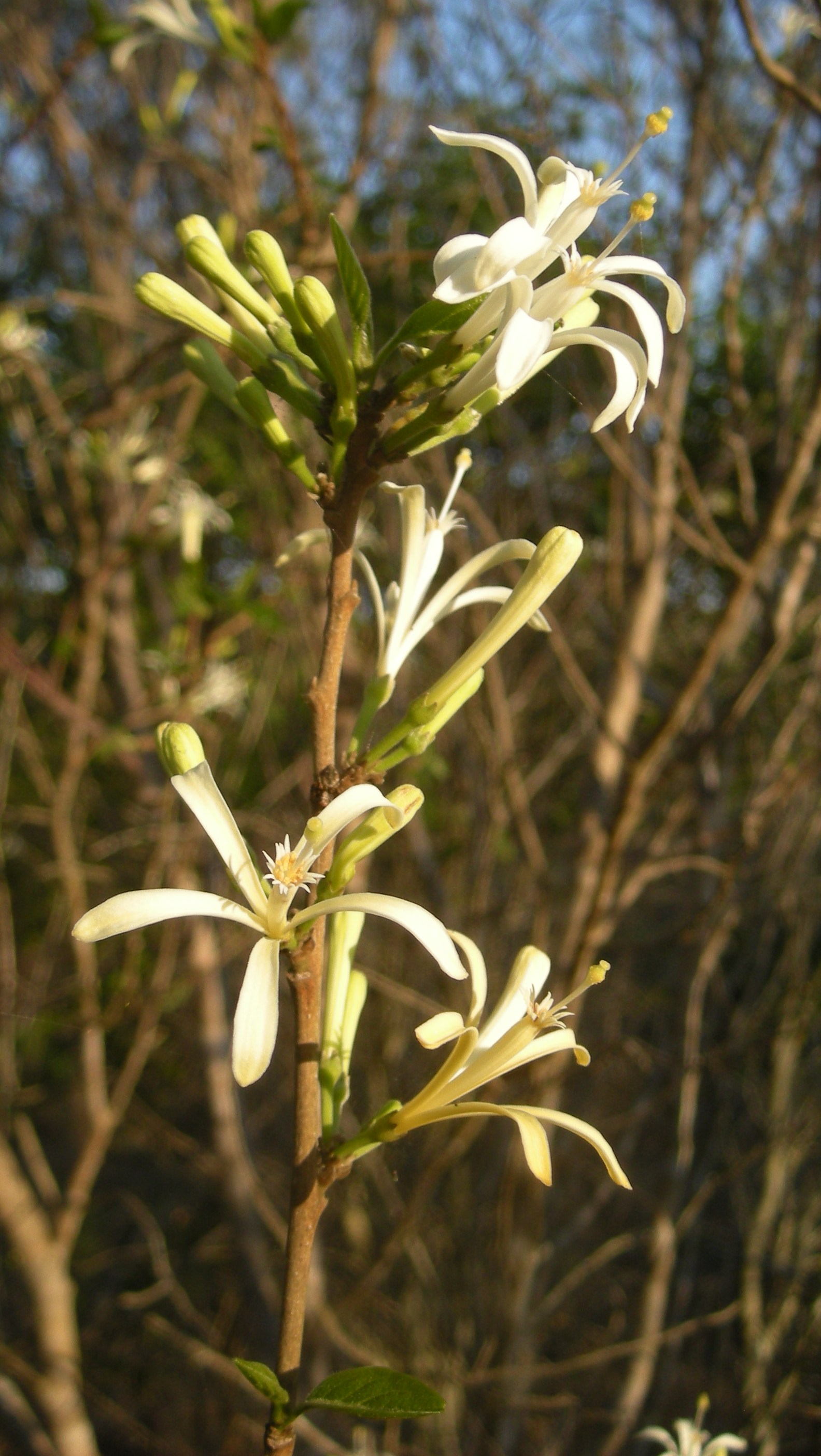 Turraea pubescens flowers